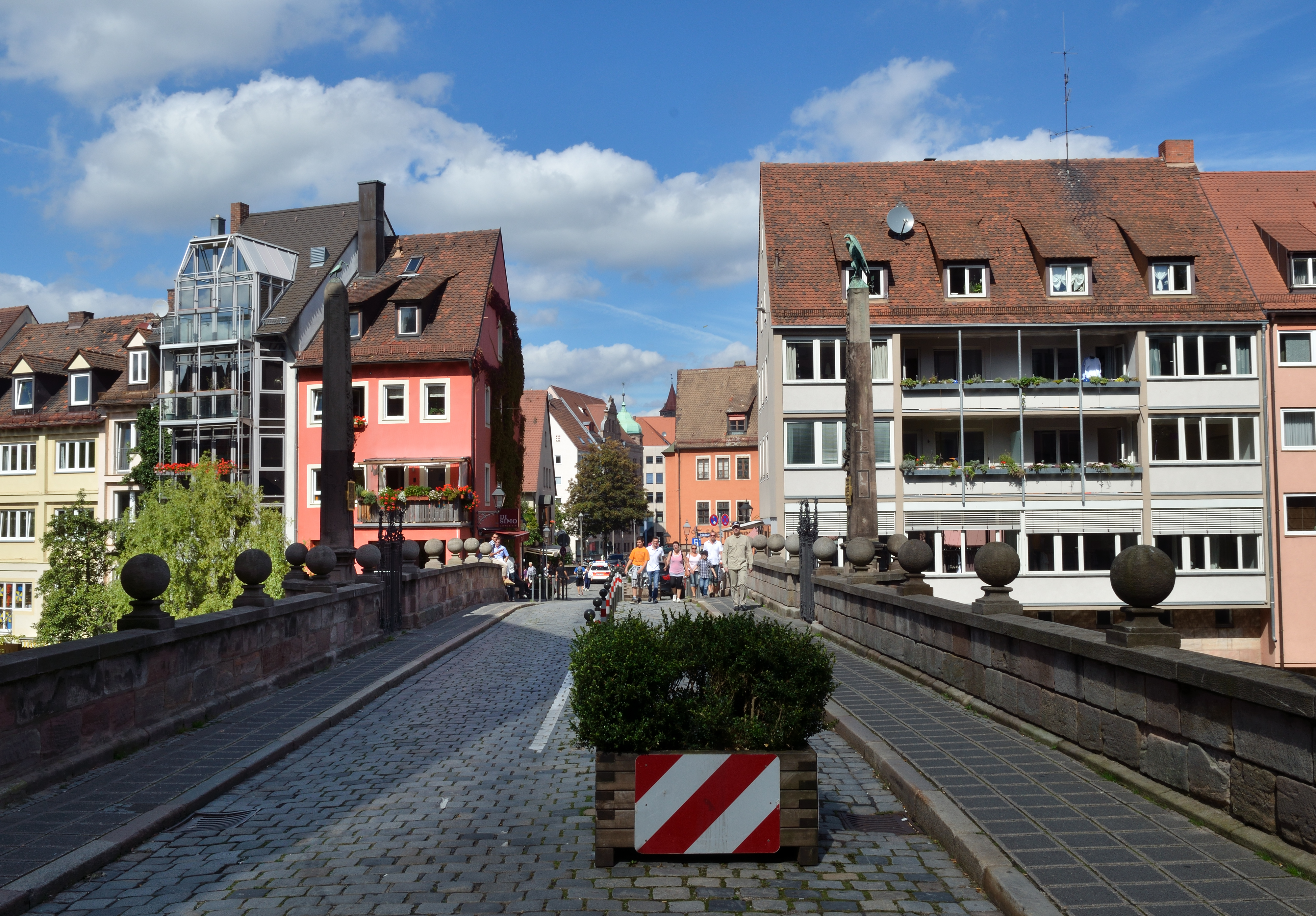 "Karlsbrücke" (Karls bridge) in Nuremberg, Germany.